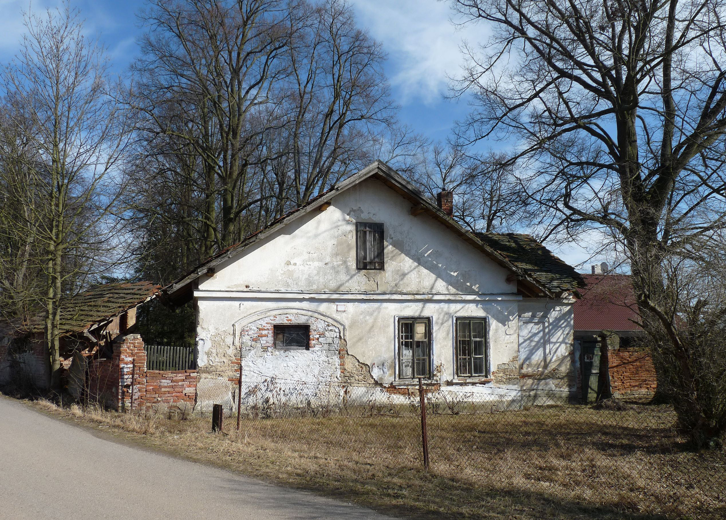 Jewish cemetery in the town of Horažďovice, Klatovy District, Czech Republic - former undertaker's house